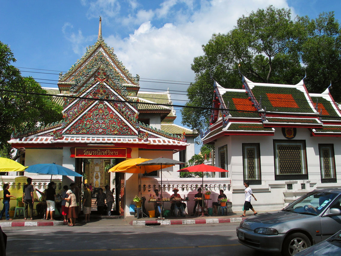 Entrance to Wat Bowonnivet, Bangkok Thailand